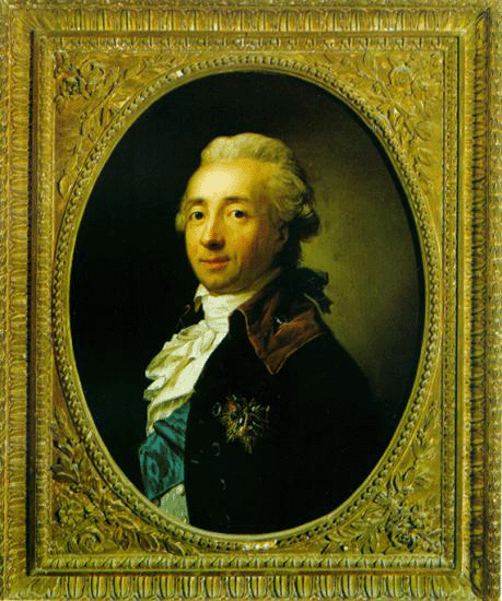 Portrait of Michał Hieronim Radziwiłł (1744-1831)